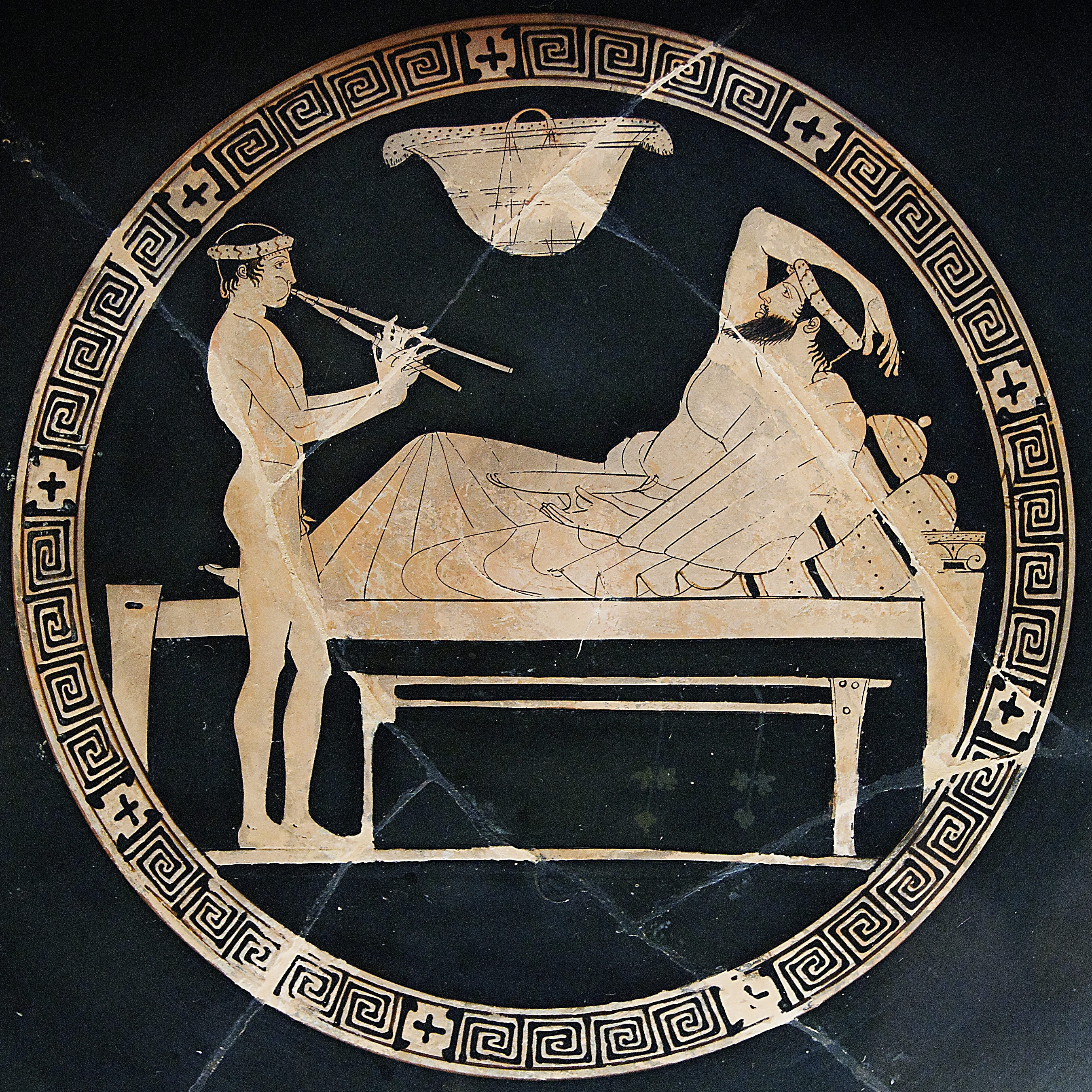 Banquet scene: man reclining on a bench and youth playing the aulos. Tondo of an Attic red-figure cup.